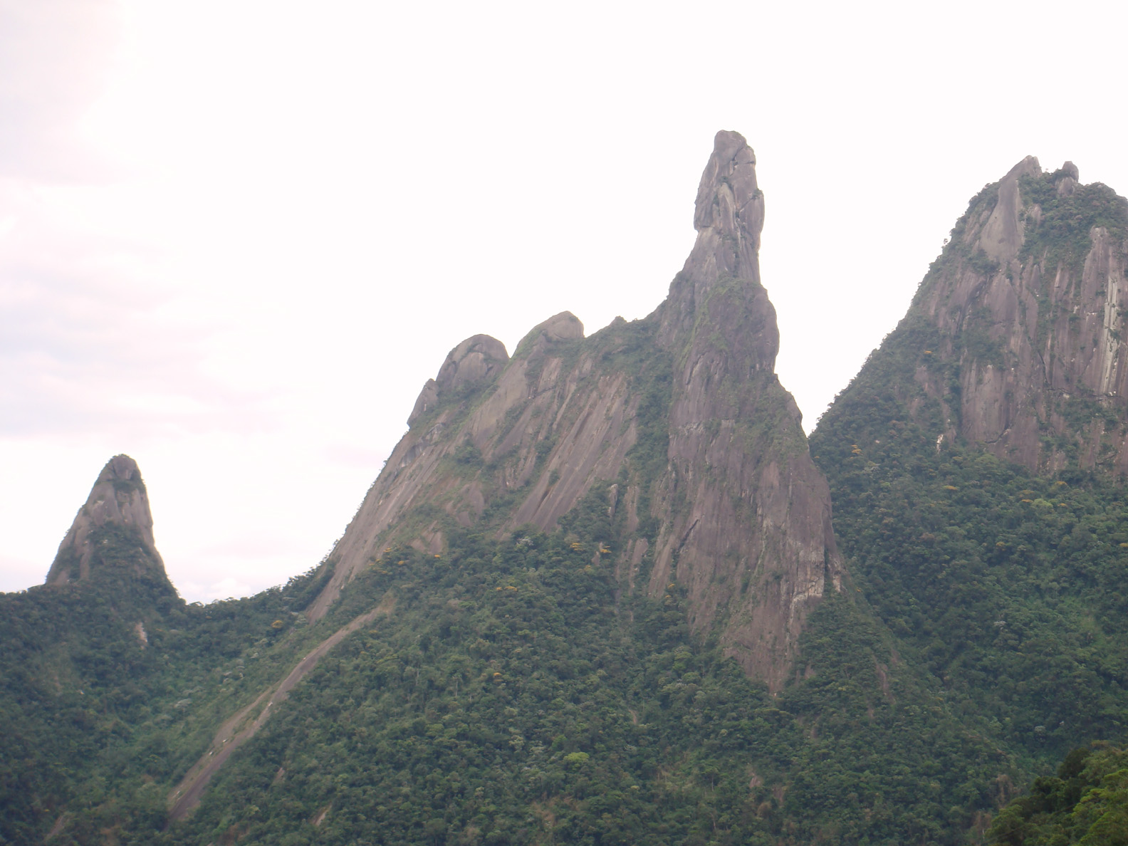 Mountains (Serra dos Órgaos) at the entrance of Teresópolis, Brazil